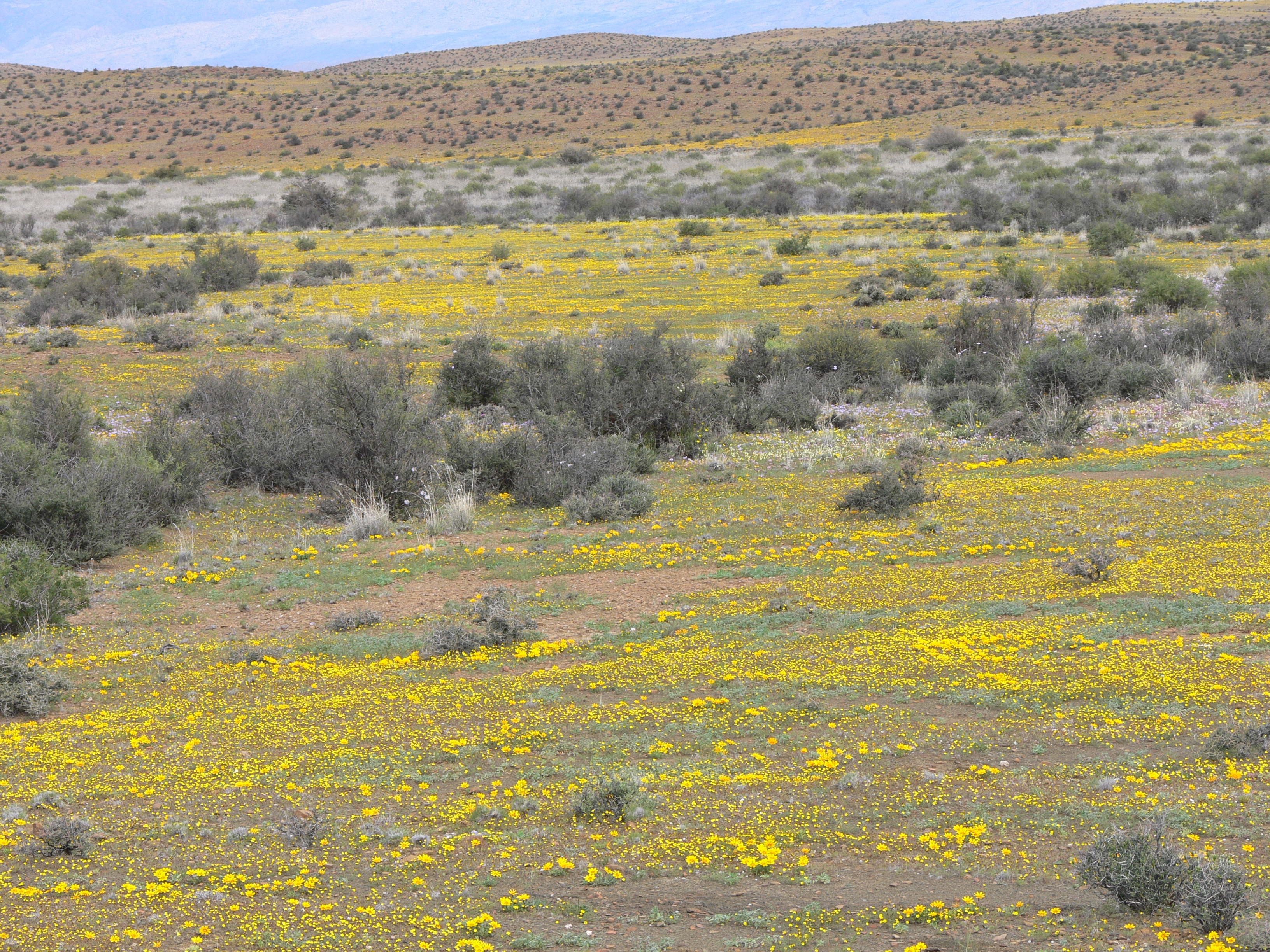 flowering Karoo, near the Highway N1 between Laingsburg and Prince Albert Road, Western Cape, South Africa